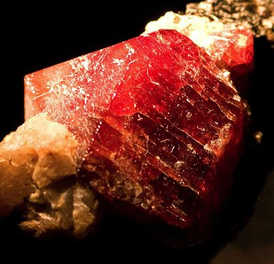 Zircon Locality: Harchu (Harchoo), Astor valley (Astore valley), Astor District (Astore District), Northern Areas, Pakistan (Locality at ) Size: miniature, 3.5 x 2.1 x 1.3 cm Zircon A matrix of quartz and biotite mica hosts a few, equant, glassy and gemmy, orangy-red zircon crystals, to 1.5 cm across. Minor peripheral edge wear is present on one side of the zircon but the overall effect of the specimen is unaffected. This crystal is so sharp and lustrous, it looks cut and polished with a lapidary wheel.